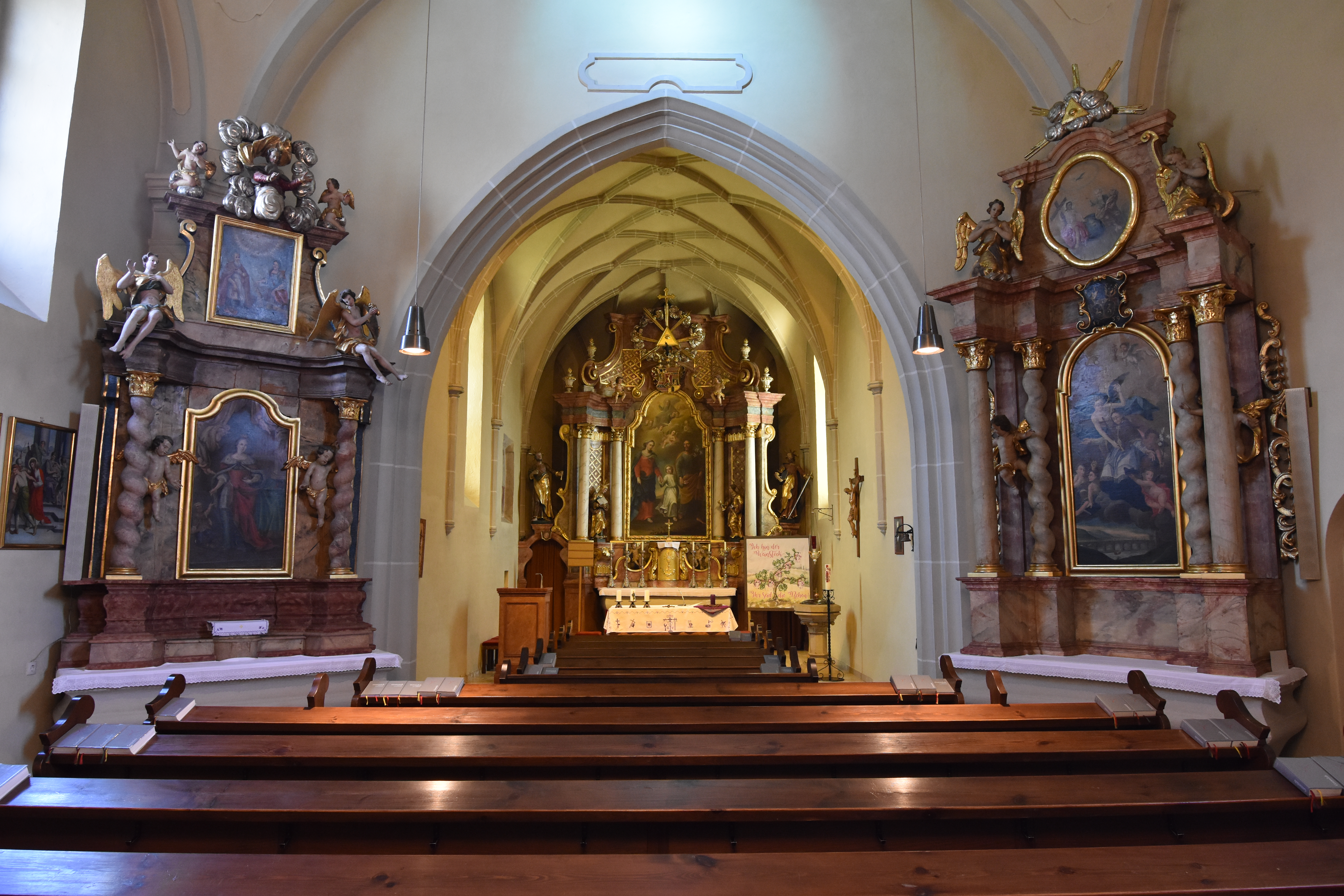 Church Eberau Interior